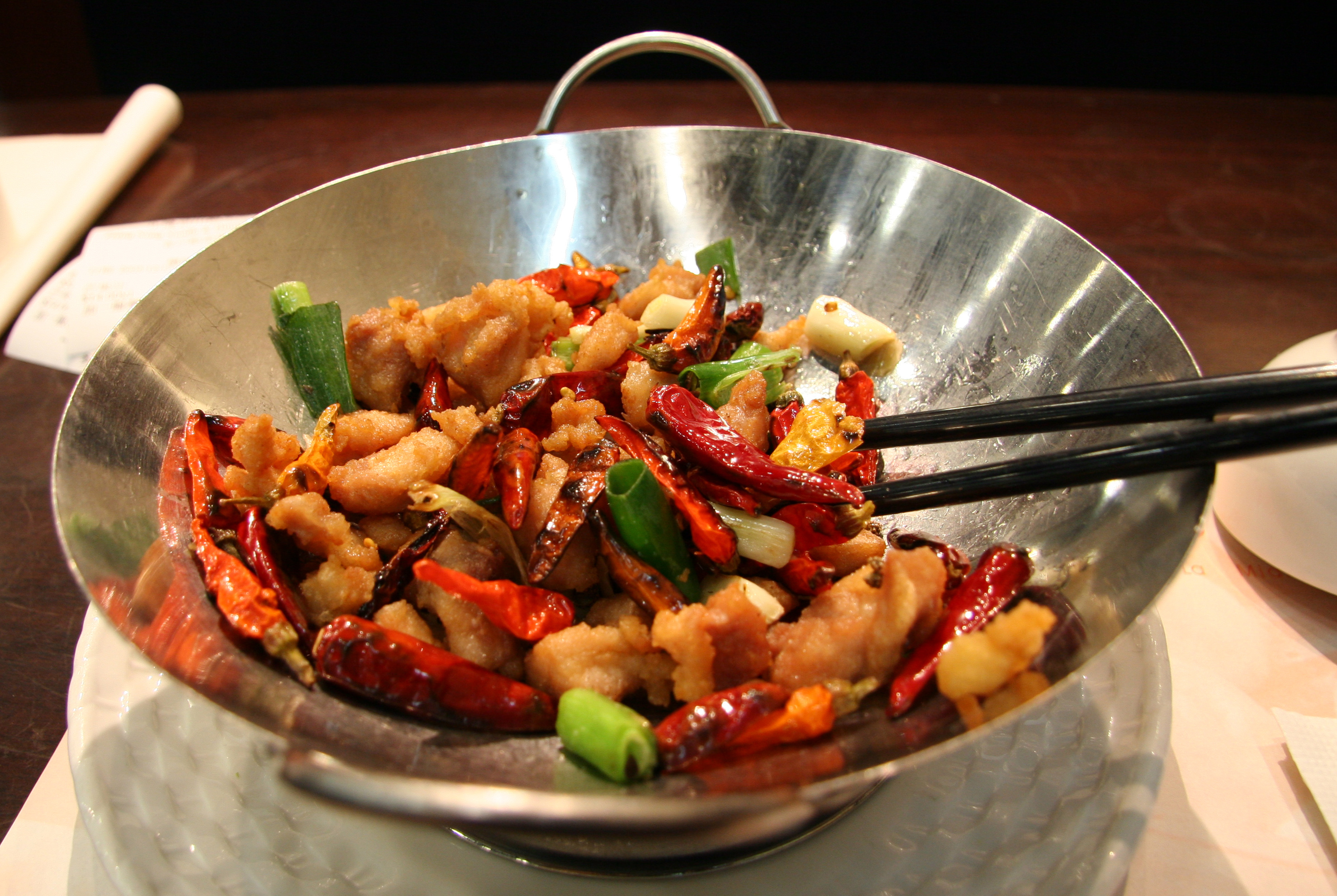 Meal served in a wok, Hong Kong